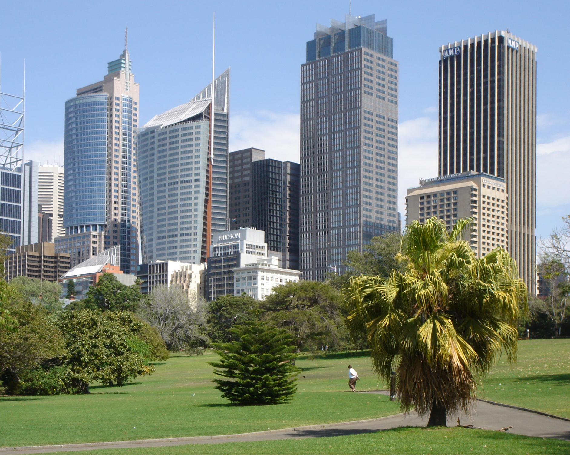 Botanical Gardens looking out toward city of Sydney, Australia (8x10)